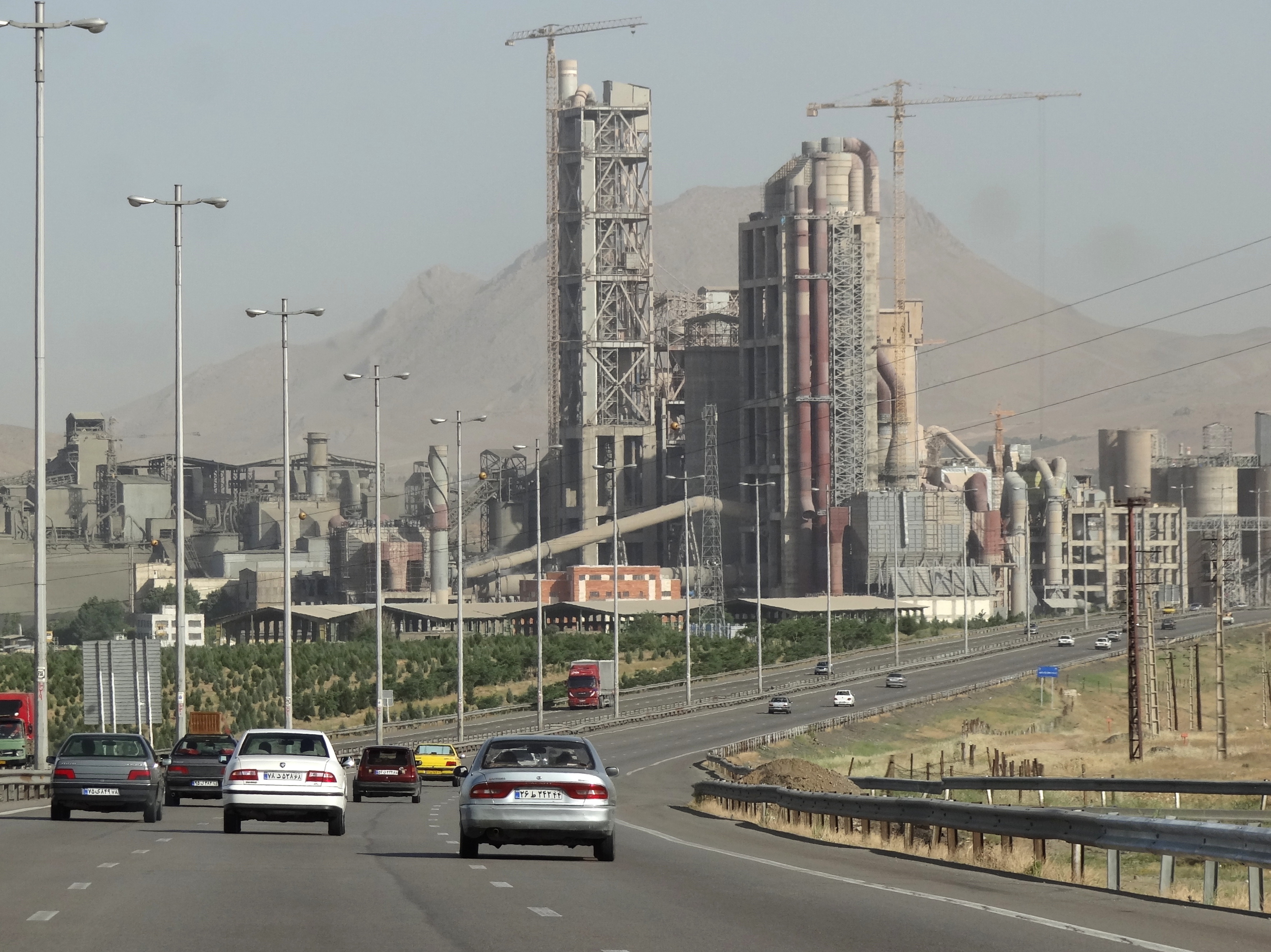 Huge Factory on Western Outskirts of Tehran, Iran.